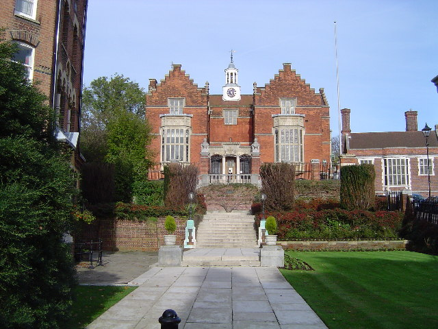 Harrow School. The School was founded in 1572 under a Royal Charter granted by Elizabeth I to John Lyon, a local farmer. A scholar wearing a top hat can just be seen in the doorway. Copious details of the School, including this week's menu (!), can be found on the School's website